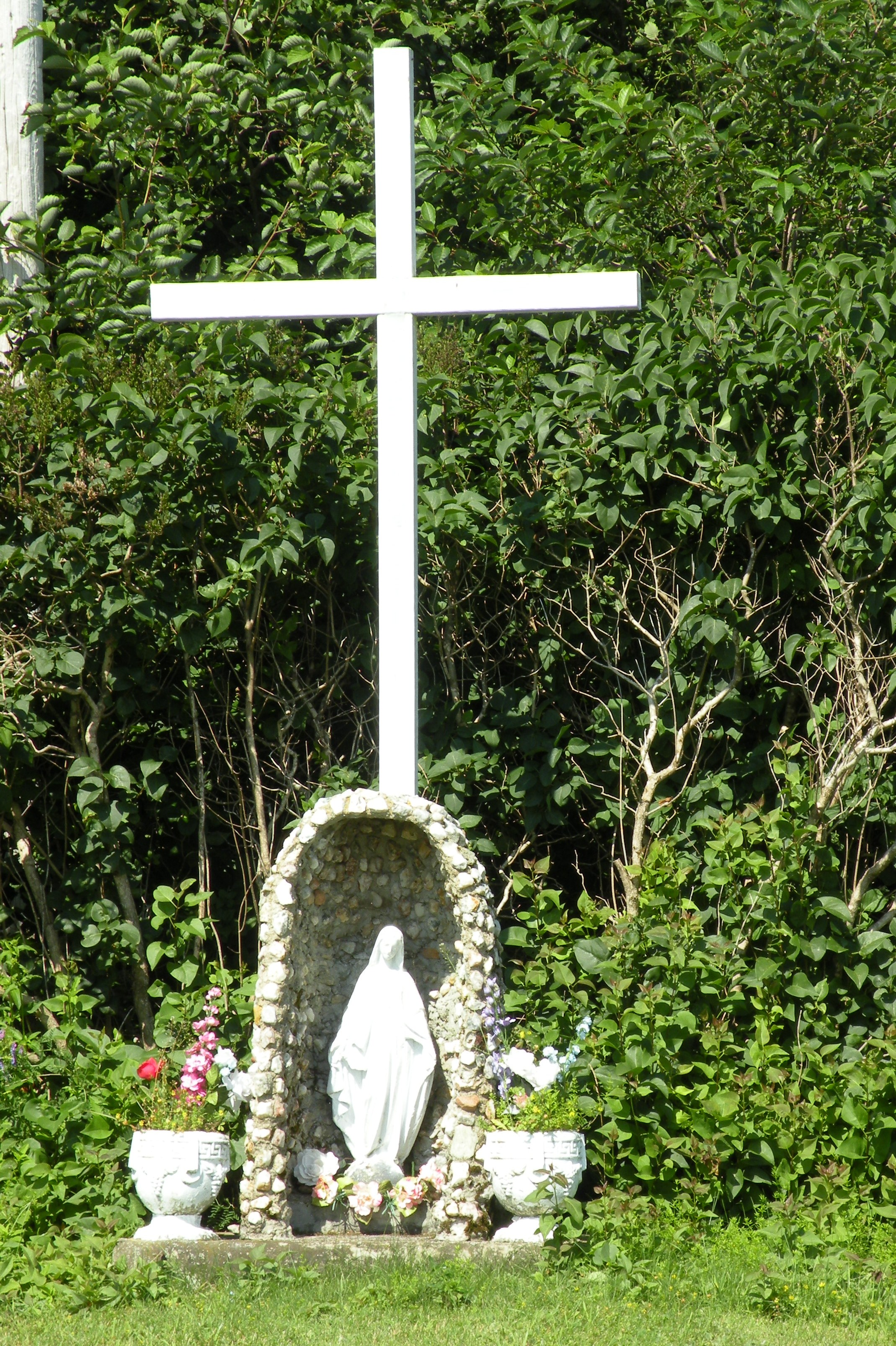 A road cross in Village-des-Poirier, New Brunswick.